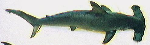 hamerhaai Scalloped Hammerhead--Sphyrna lewini